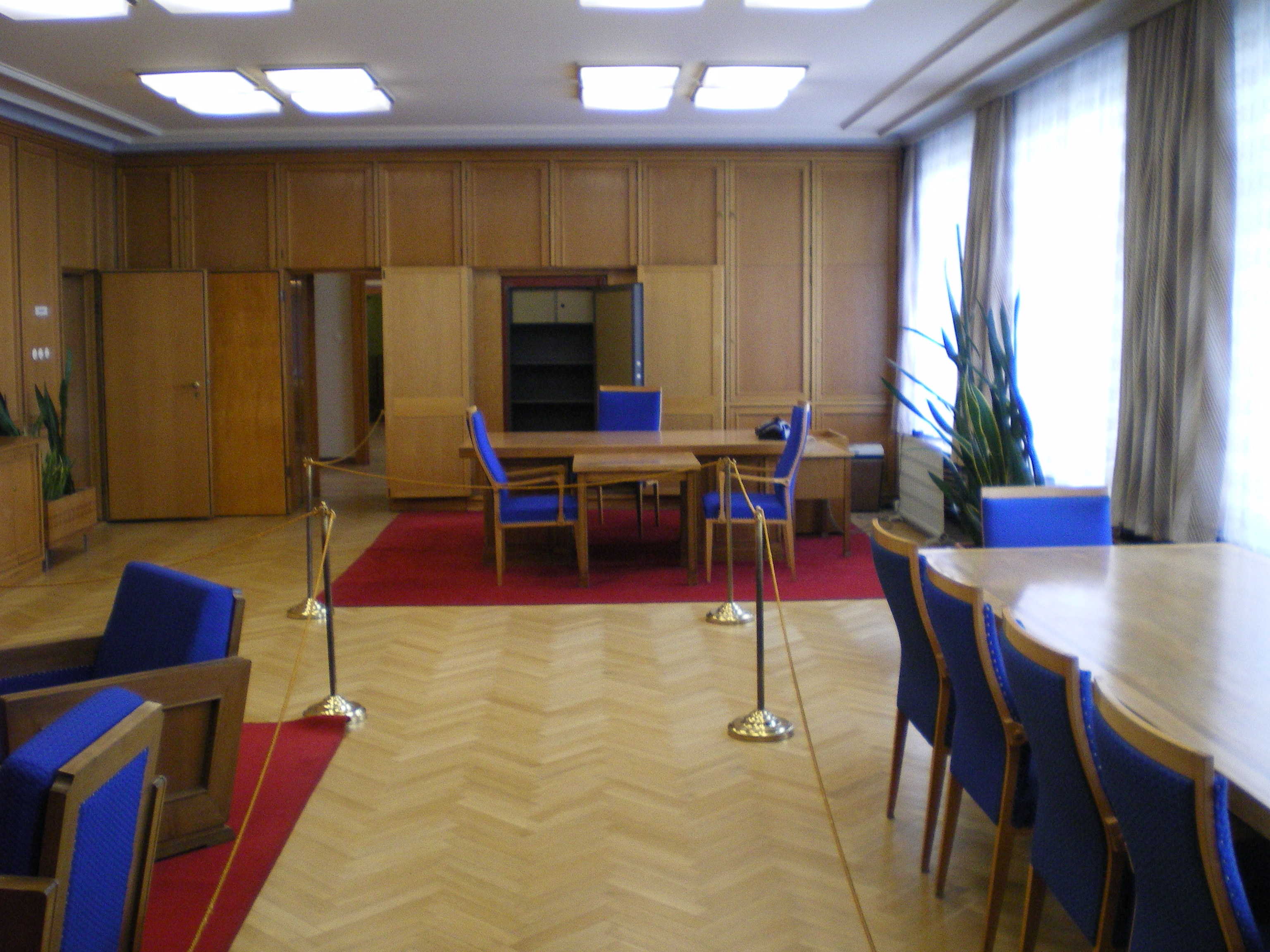 Erich Mielkes office in Stasi-central in Berlin-Lichtenberg, april 2010.